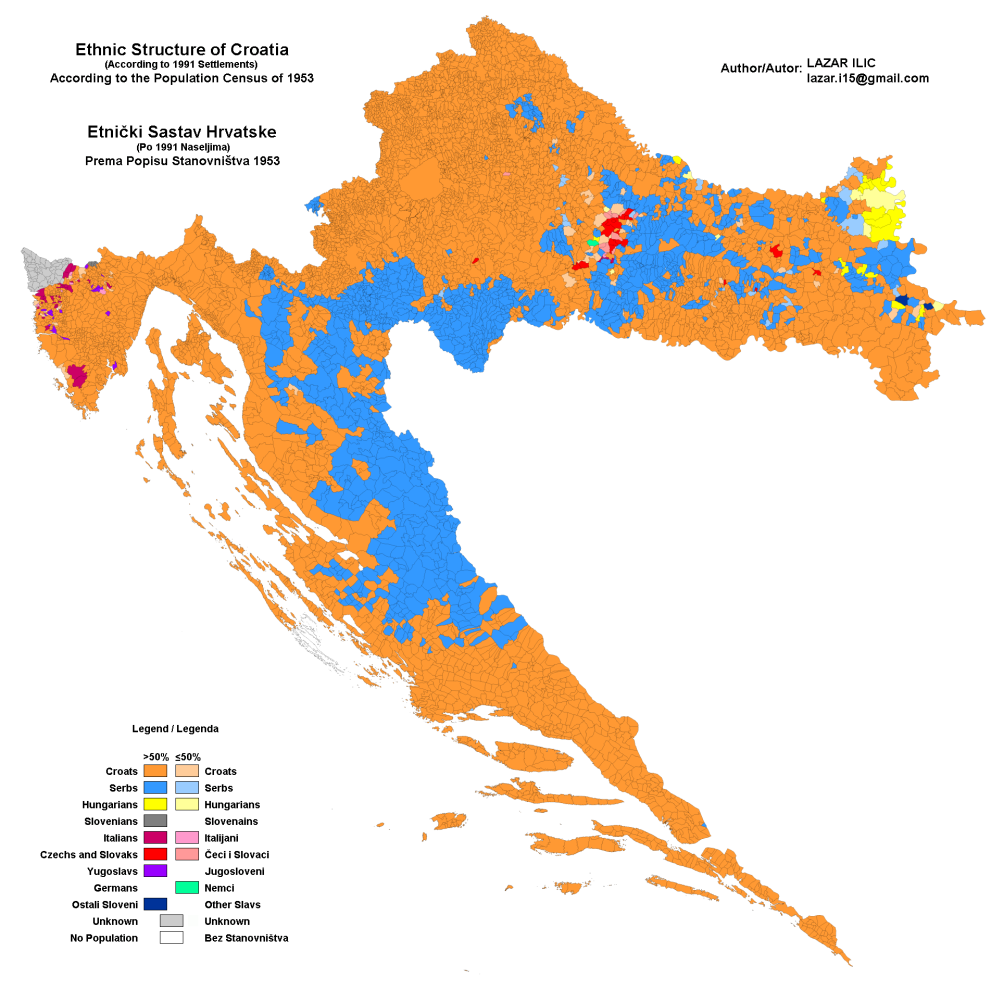 This is an ethnic map of Croatia, according to settlements. It is according to the 1953 census.